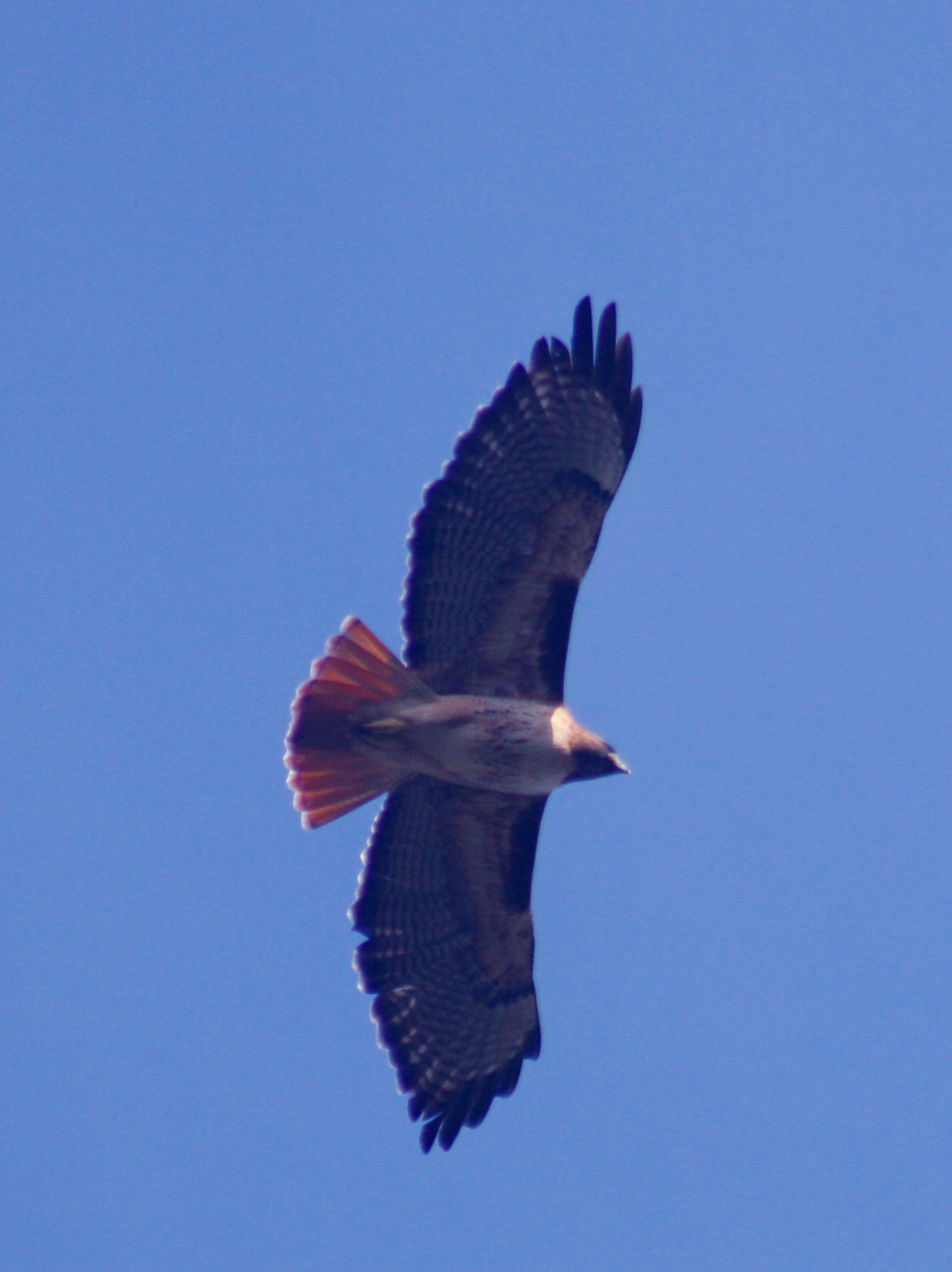 red-tailed hawk